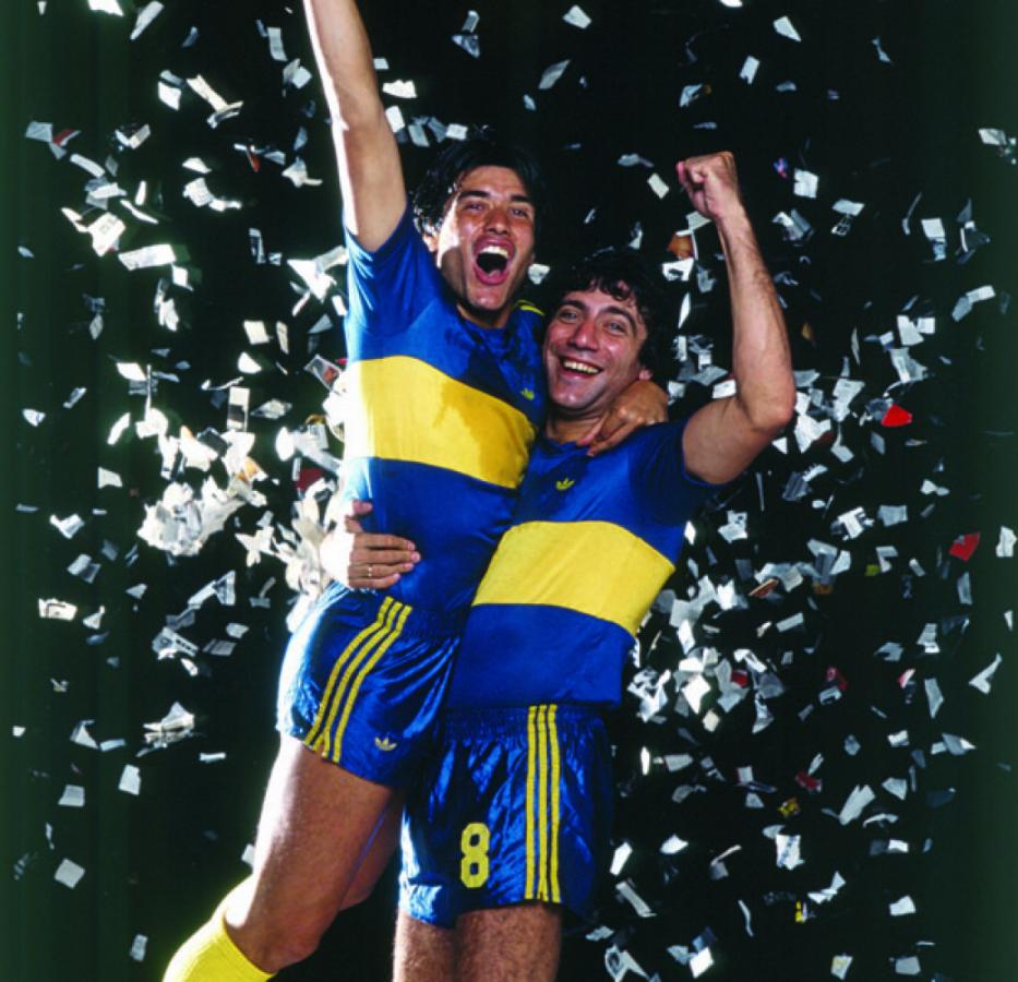 Marcelo Trobbiani and Miguel Brindisi during a photo session